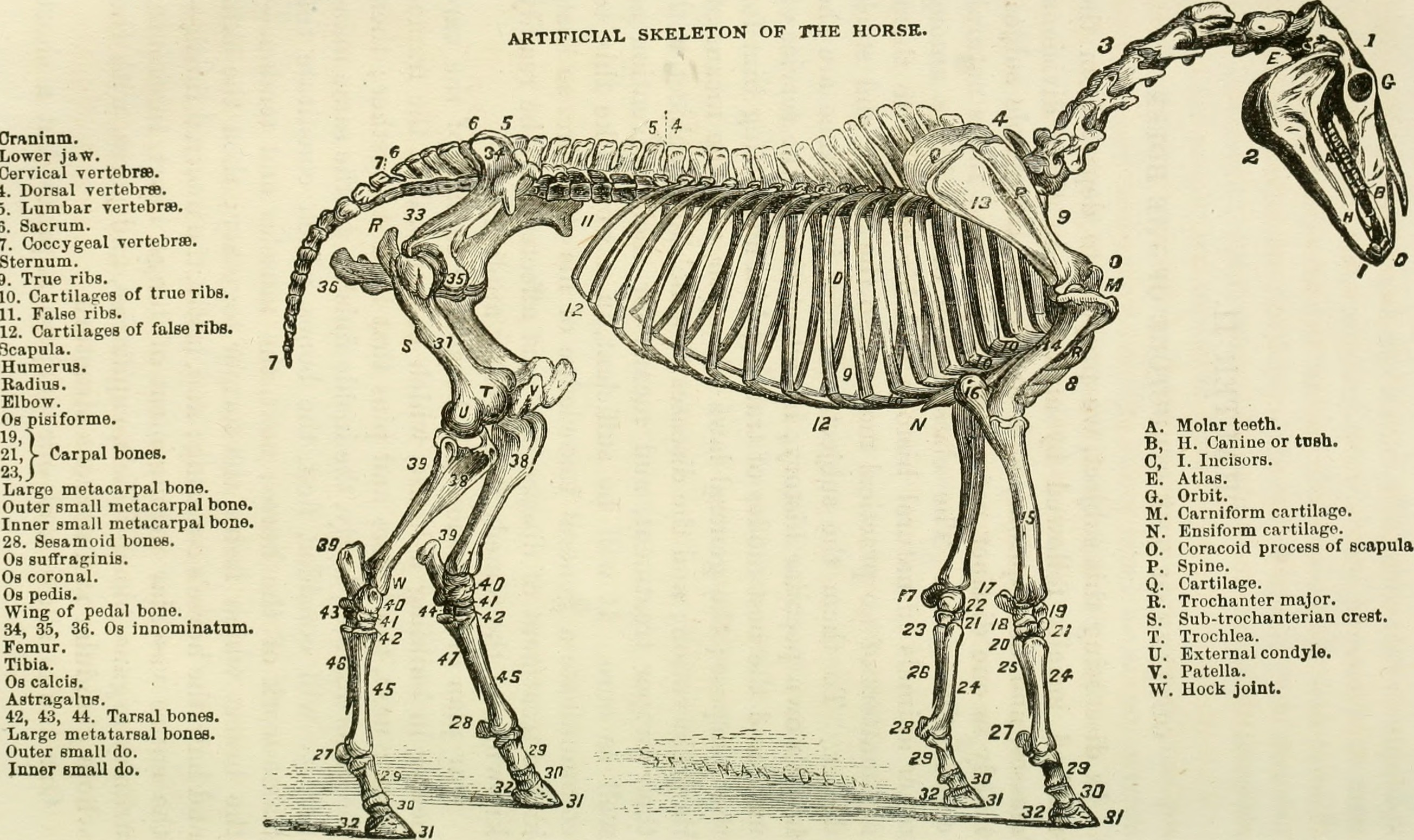 Title: The American farmer's horse book; Year: 1867 (1860s) Authors: Stewart, Robert, veterinary surgeon. (from old catalog) Subjects: Horses Publisher: Cincinnati, C. F. Vent & co. ; Text Appearing Before Image: 24 AMERICAN FARMER'S HORSE BOOK Text Appearing After Image: ,- ei ri ^-o«rt.-«; oTs--2"3 s s S Ji 2 S"S S S S Sf S S S S S K S S S 5 *' S 5